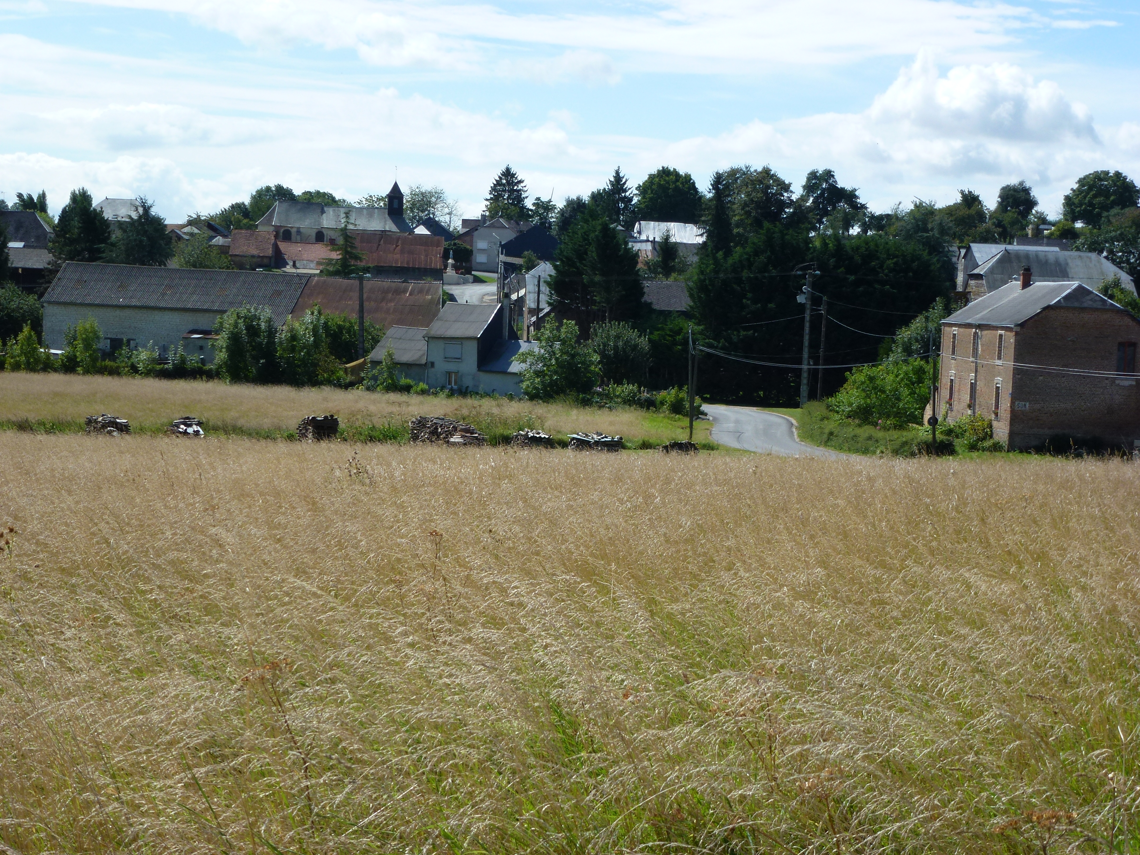 Son (Ardennes) vue du village